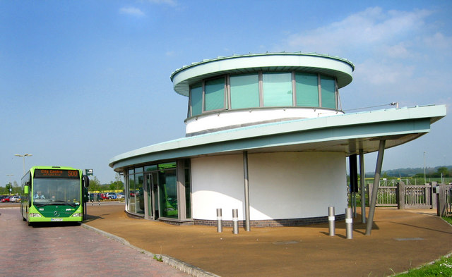 An Oxford Bus Company Mercedes-Benz Citaro bus at Oxfordshire County Council's Water Eaton park and ride station, Oxfordshire